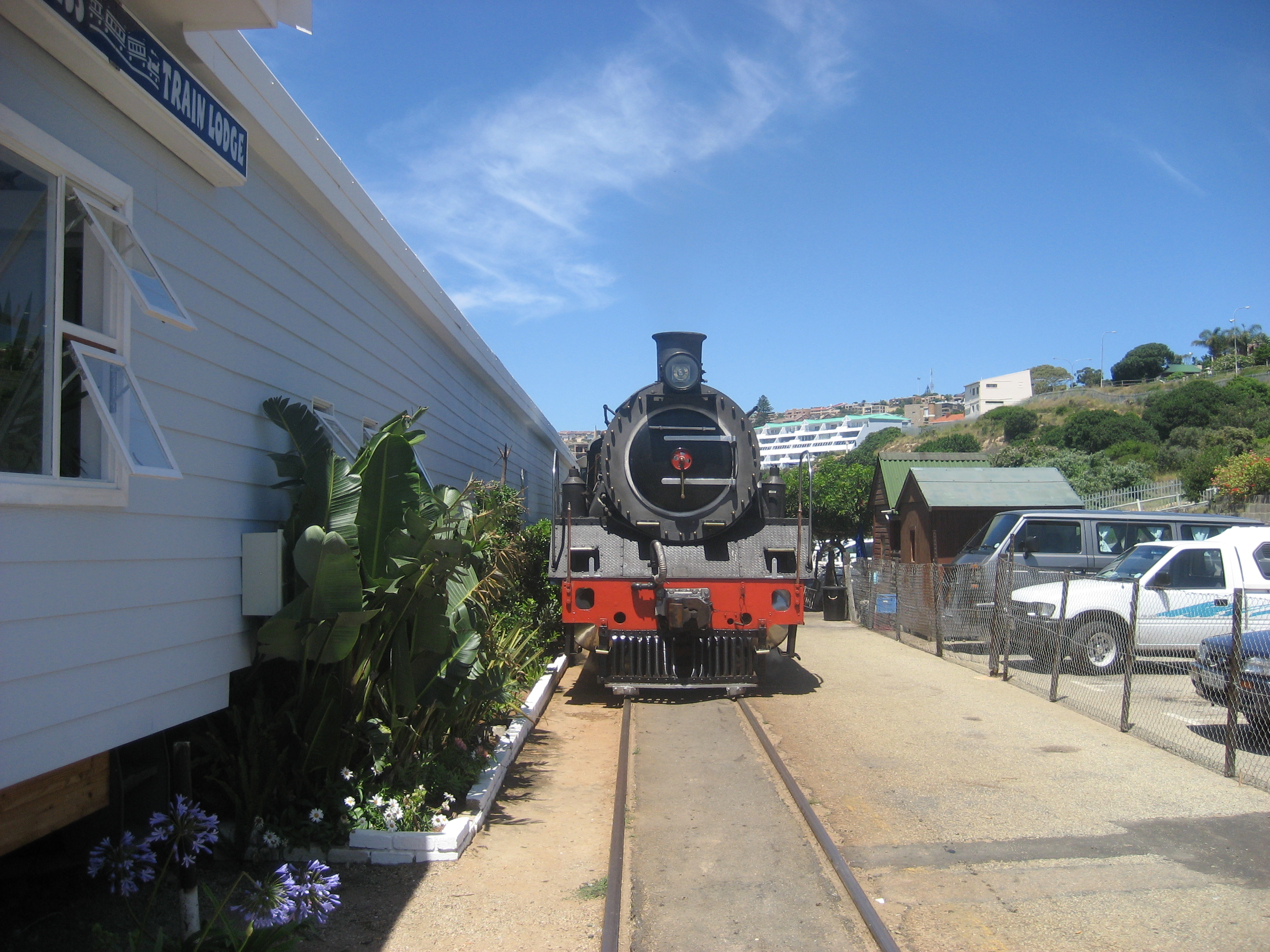 SAR Class 19D 3324 at Santos Beach, Mossel Bay (South Africa)